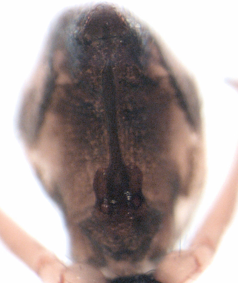 adult Pahoroides aucklandica (female), abdomen ventral